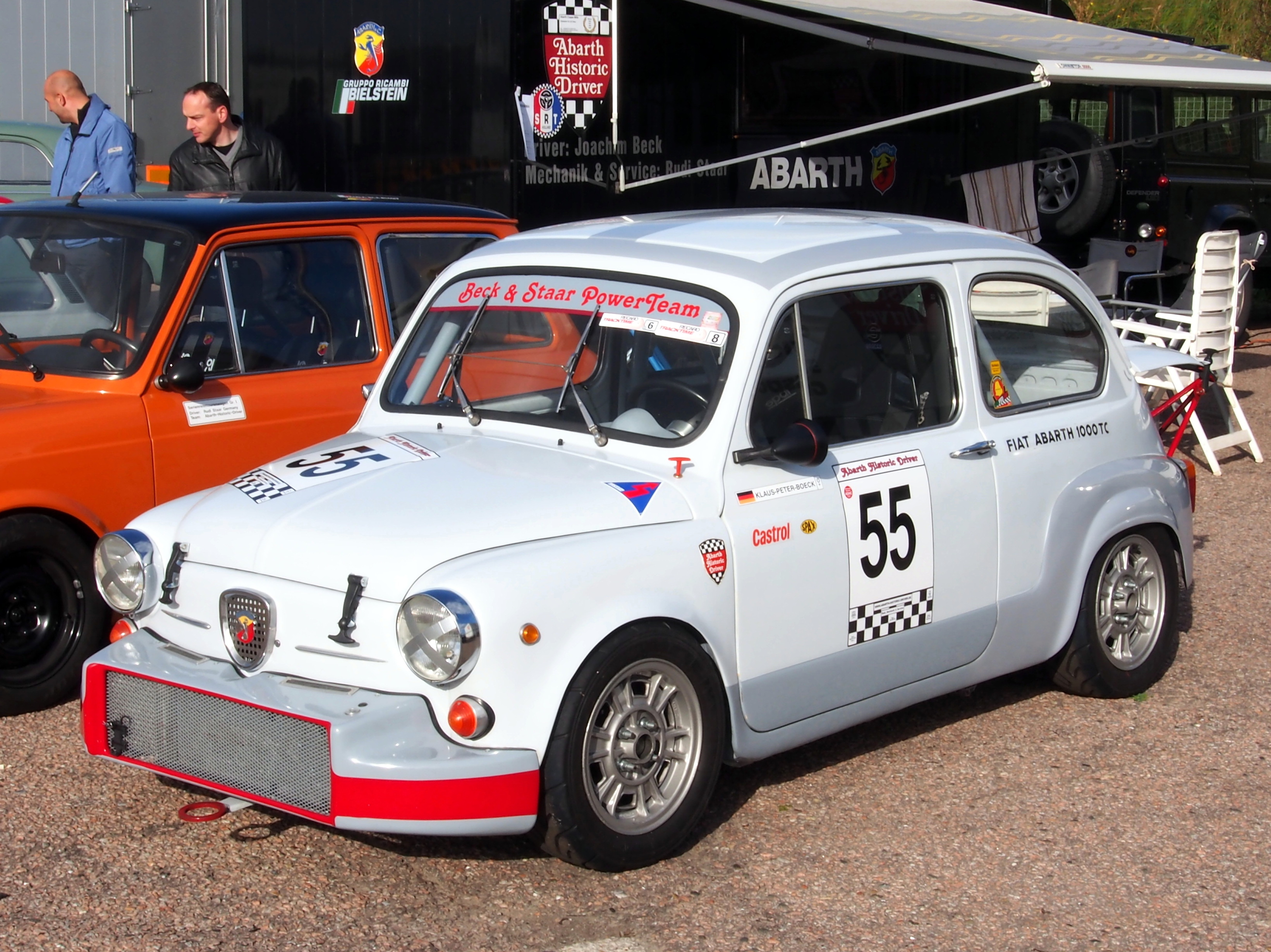 Fiat Abarth 1000 TC Grey